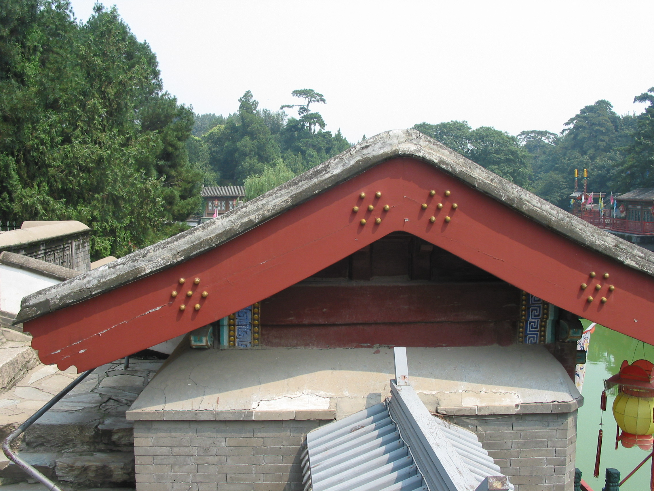 Juanpeng and xuanshan roofs (卷棚悬山顶) in Suzhou Street (苏州街), Summer Palace, Beijing, China, Bofeng board (博风板)